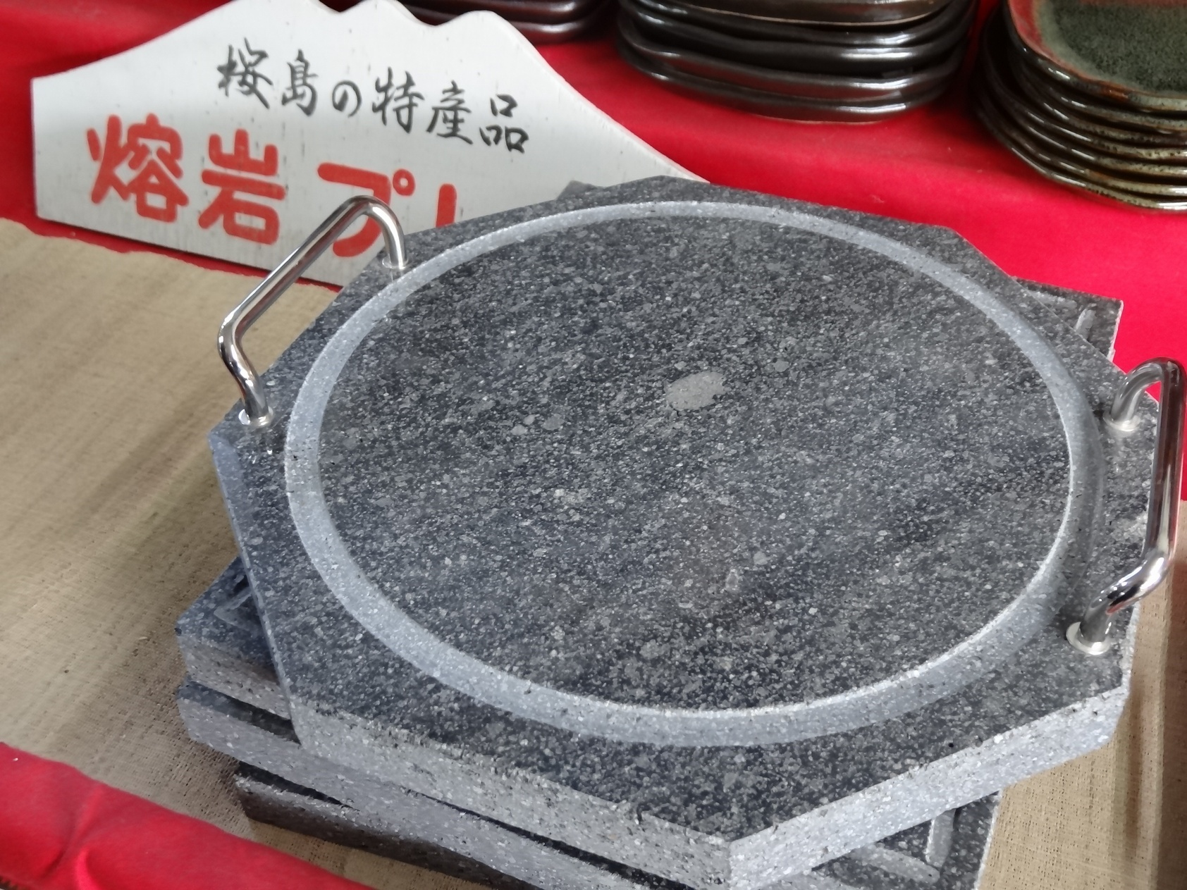 The Lava Plate (Sakurajima, Kagoshima Prefecture, Japan)